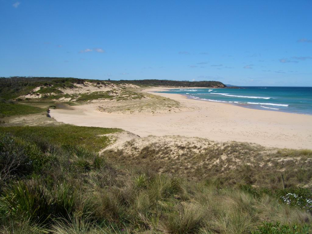 Manyana Beach looking north from carpark